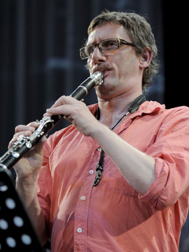 Frank Gratkowski, moers festival 2010